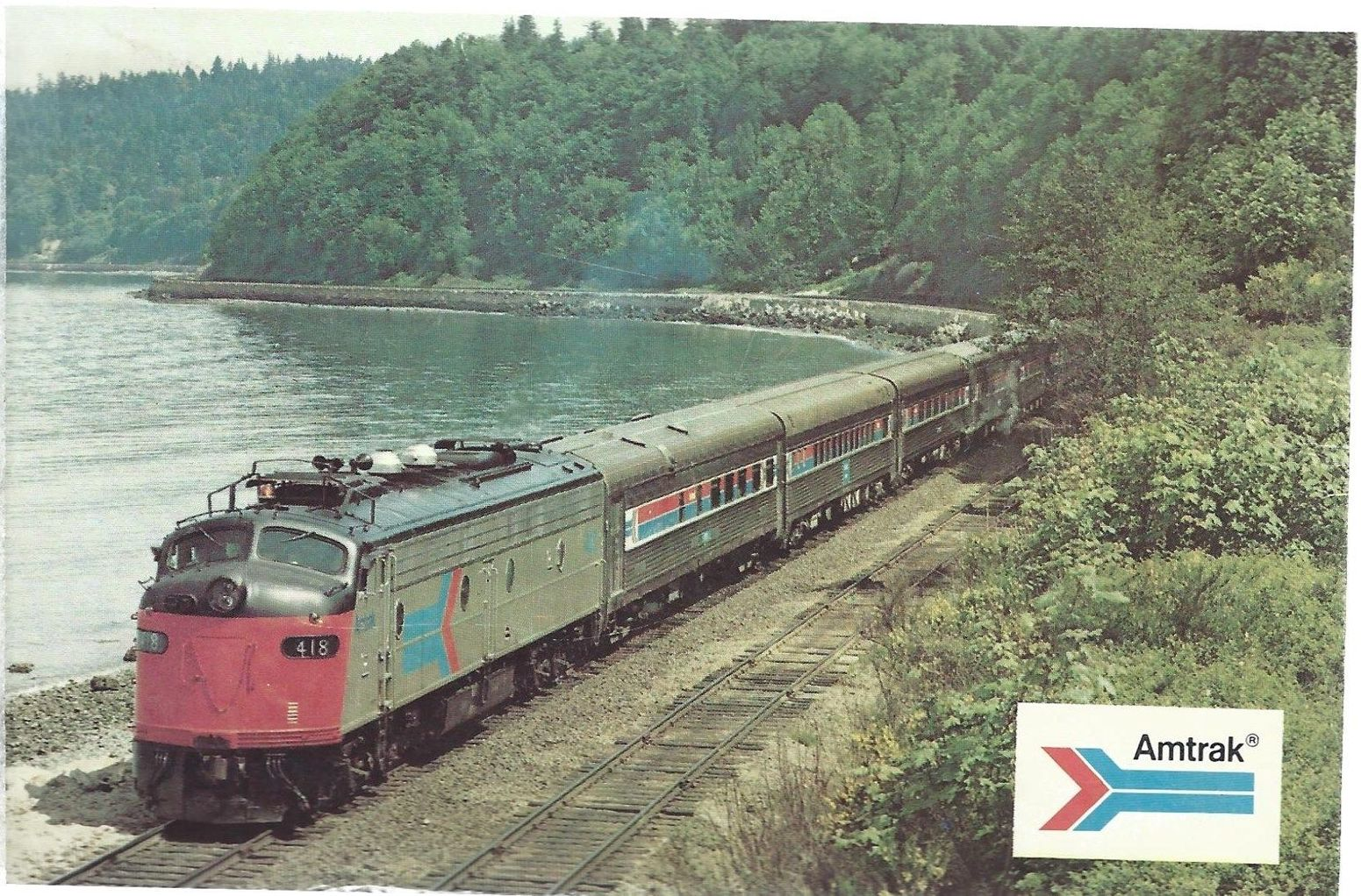 Postcard of the Coast Starlight/Daylight at an unidentified location in 1974